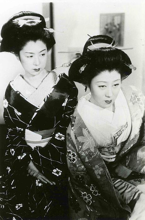 Kinuyo Tanaka and Isuzu Yamada in Oborokago (おぼろ駕籠) directed by Daisuke Itō - 1951